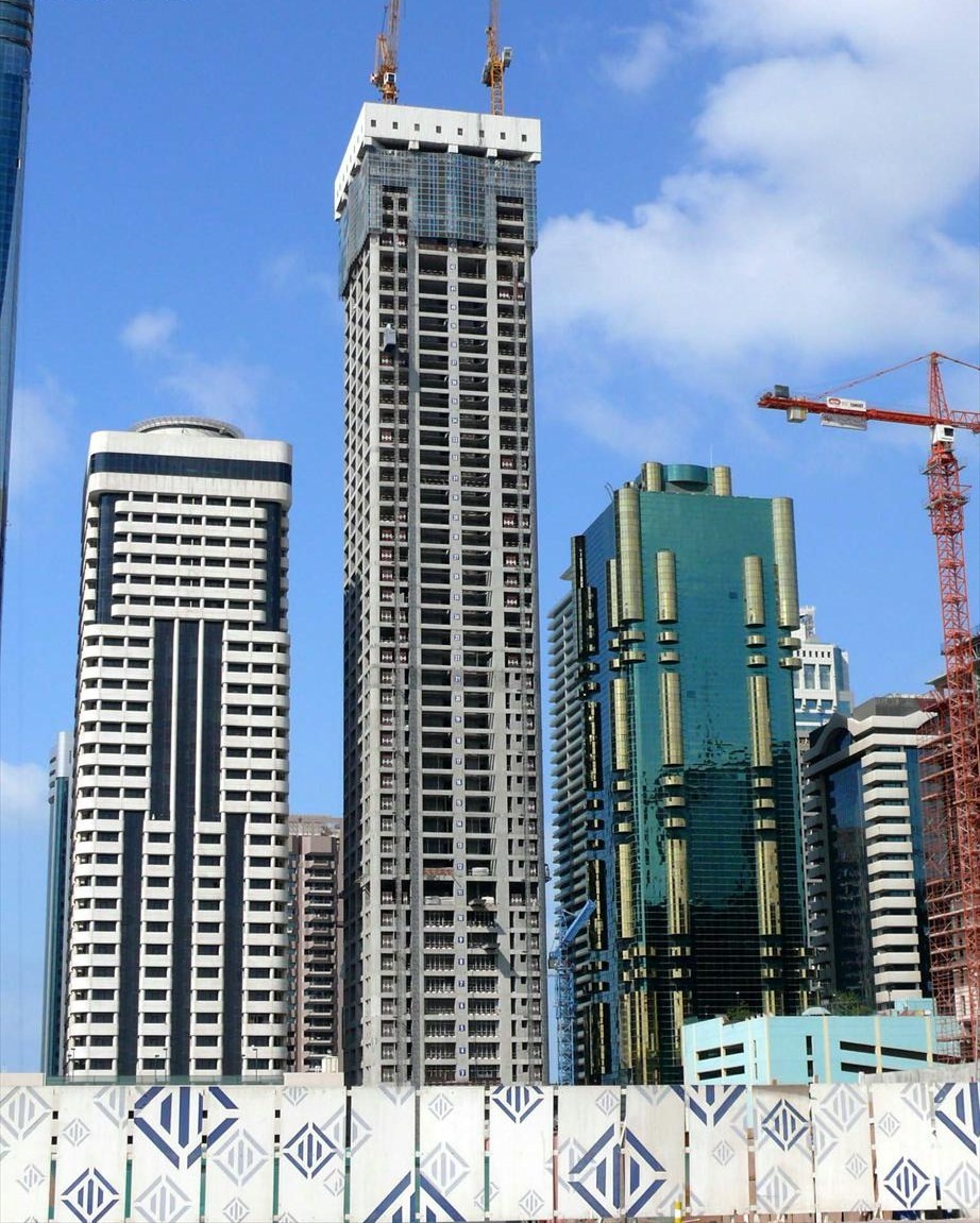 This is a photo showing the construction of Ahmed Abdul Rahim Al Attar Tower, located along Sheikh Zayed Road in Dubai, United Arab Emirates on 25 January 2008. This photo was taken from the Dubai International Financial Centre.